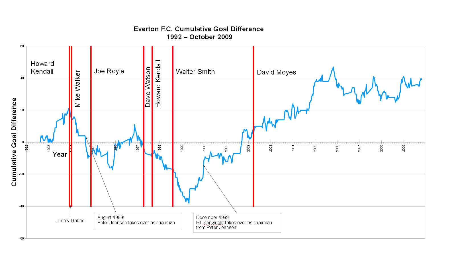 Chart showing the cumulative goal difference achieved by the different managers of Everton F.C. since the beginning of the Premiere League in 1992 to the end of October 2009